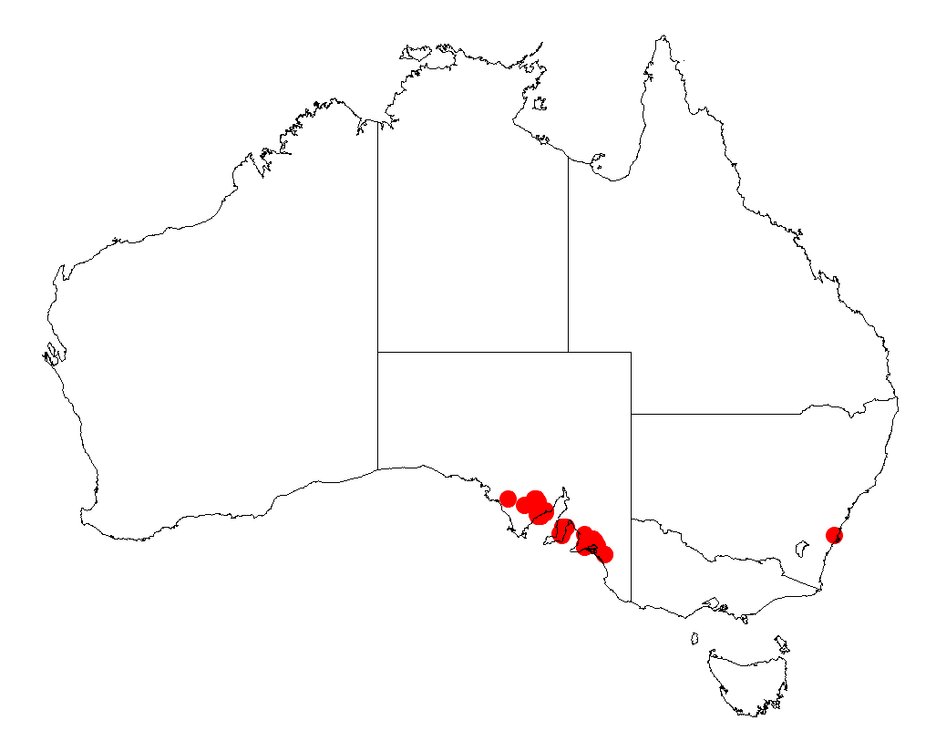 Acacia rhetinocarpa occurrence data from Australasian Virtual Herbarium downloaded from on December 8 2018